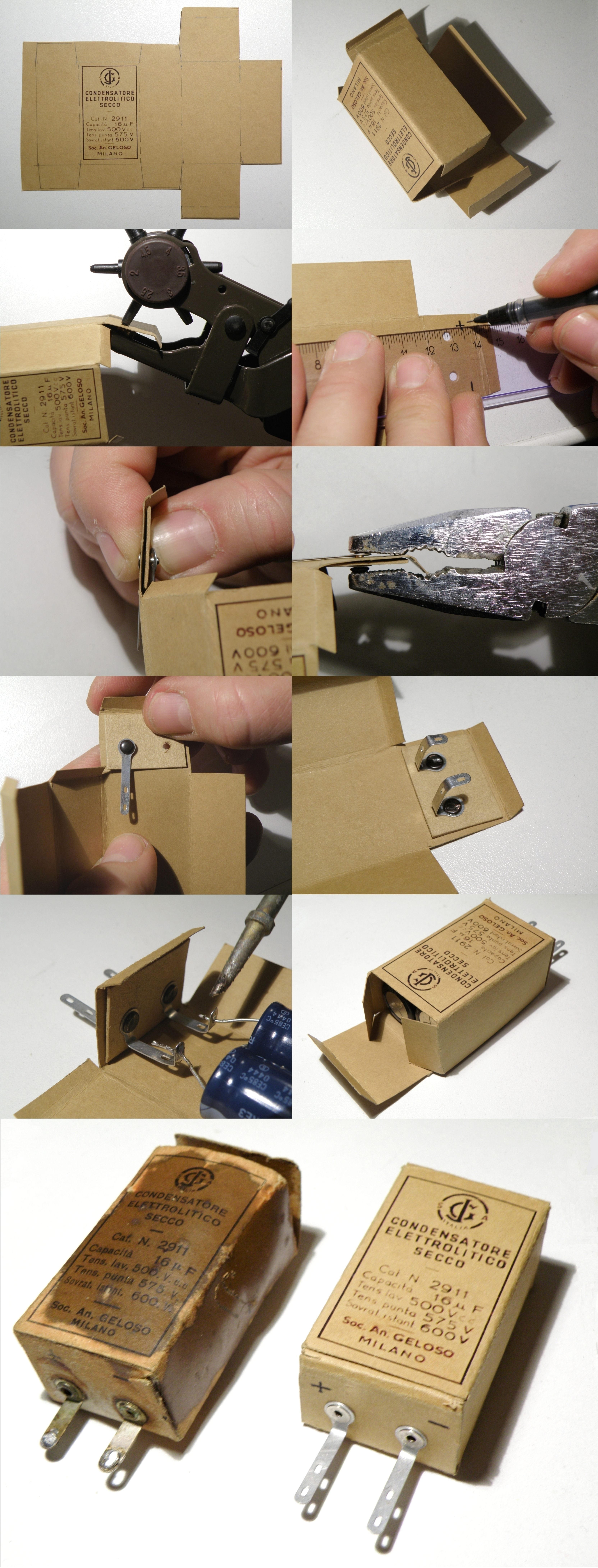 Process of reproduction of a vintage capacitor (Condensatore Elettrolitico Secco by Geloso, 16μF, 500V, of the 40s) with modern electronic elements, but conservating external appearance.